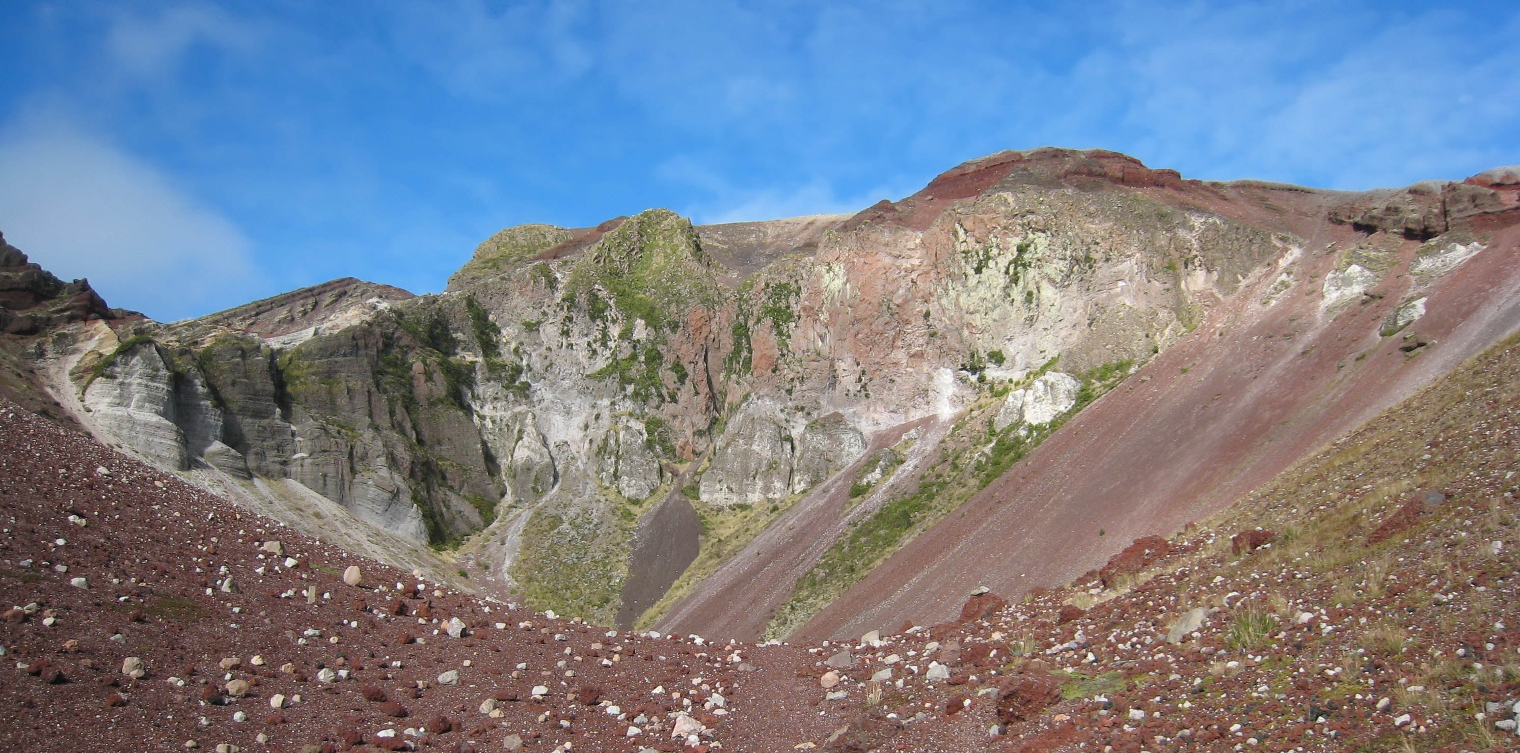 View from the middle of the fissure running across the top of Mount Tarawera. This fissure was created when the mountain exploded in 1886.